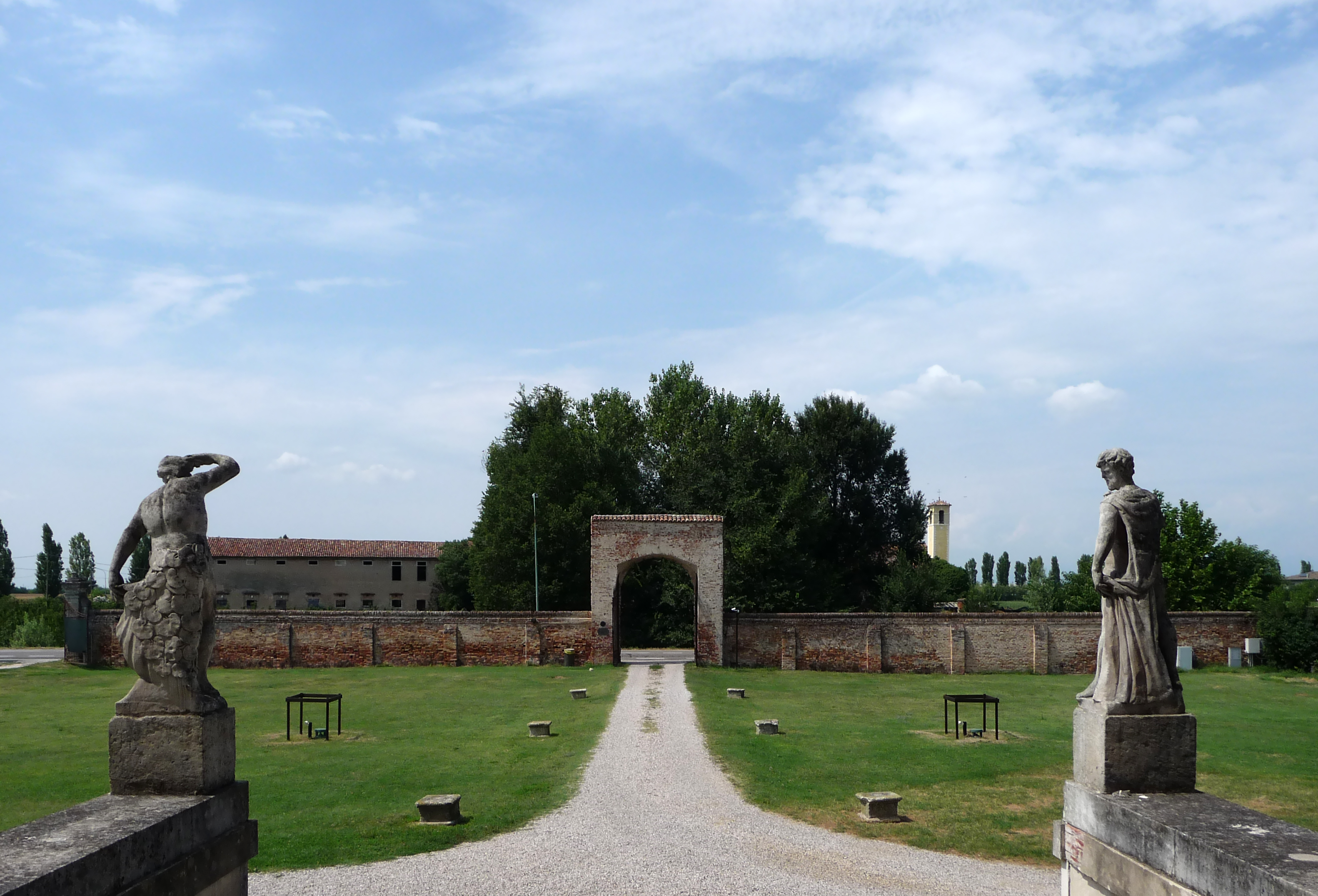 Sculptures of Nettuno (Neptune) and Giove (Zeus) at the front entrance of Villa Pojana, attributed to Girolamo Albanese (1658).Villa Pojana is a patrician villa in Pojana Maggiore, a locality of the Veneto region of (northern Italy). It was designed by the Renaissance architect Andrea Palladio.